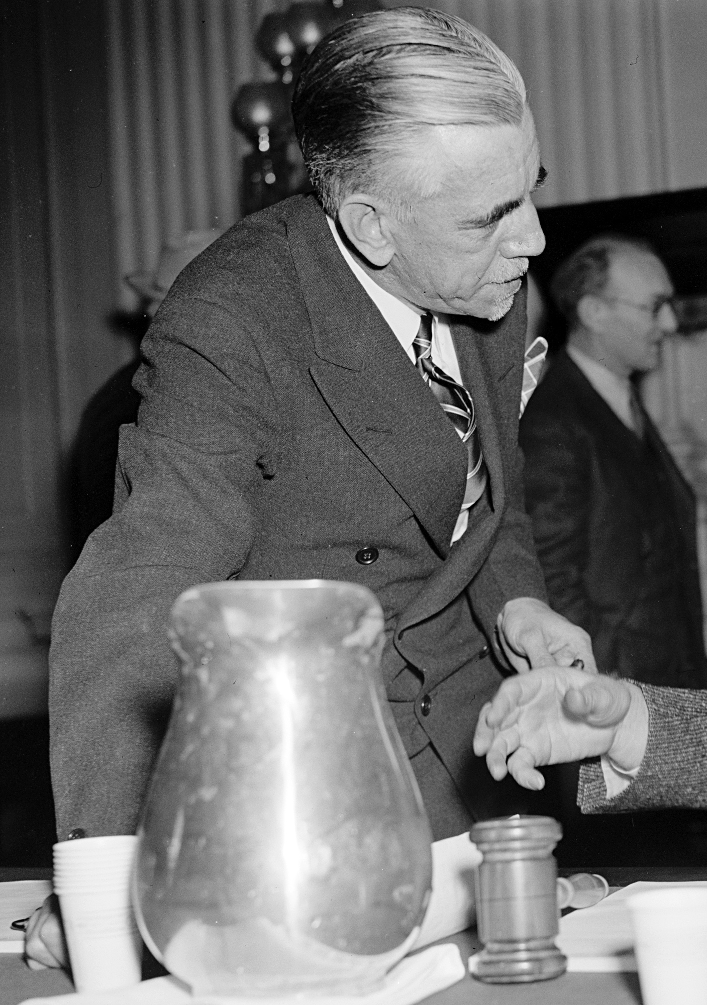 William Dudley Pelley, extremist and spiritualist